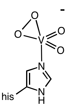 active site (peroxo state) for vanadium bromoperoxidase, as redrawn from Alison Butler review